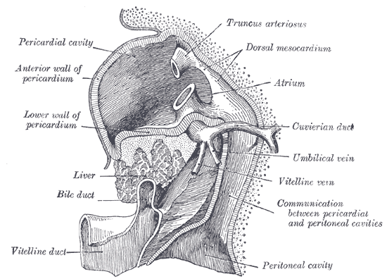 Liver with the septum transversum. Human embryo 3 mm. long. (After model and figure by His.)